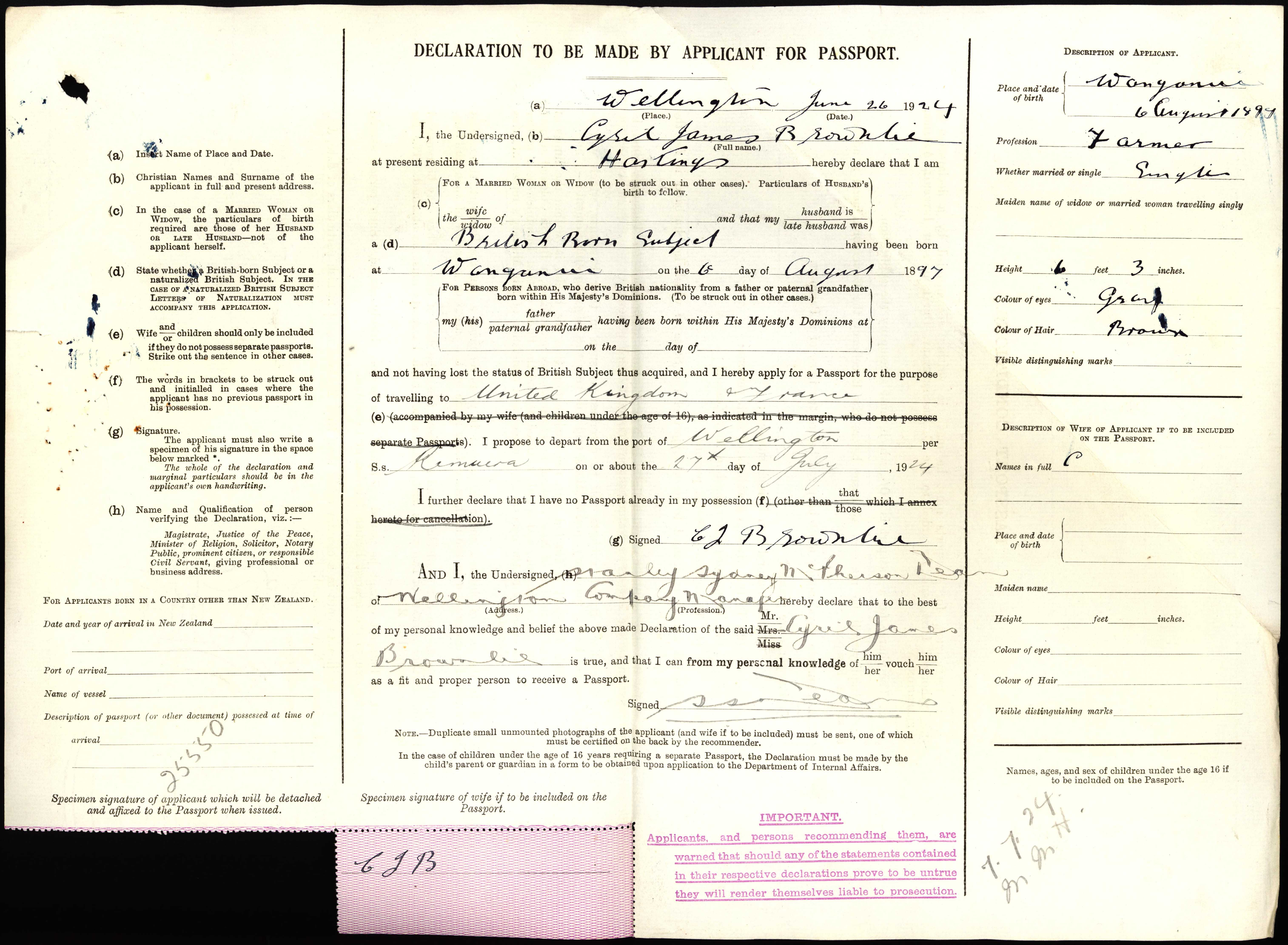 ACGO 8333 IA1 1349 / 15/11/17721 Cyril Brownlee passport application (1924)